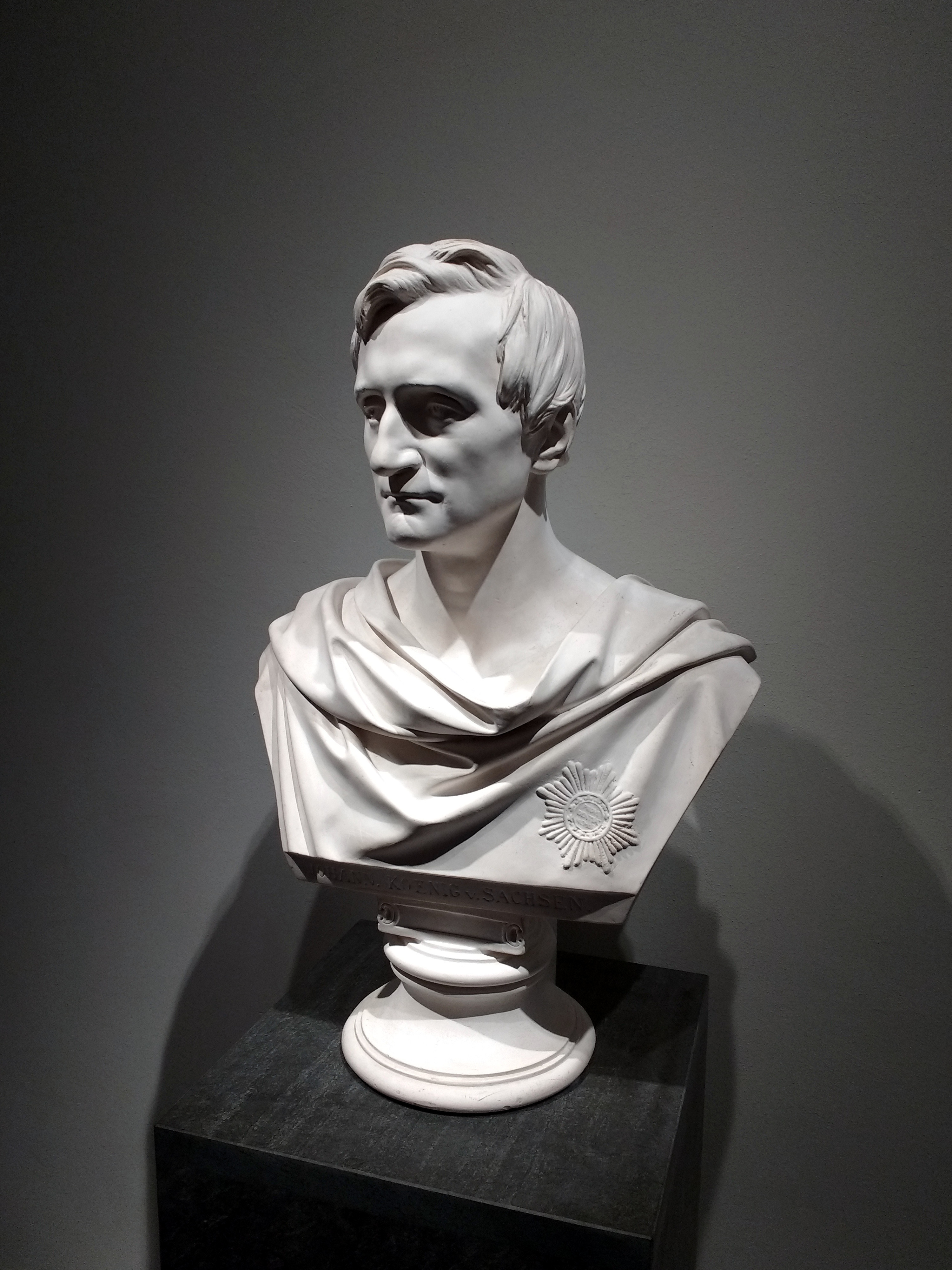 Bust of John of Saxony